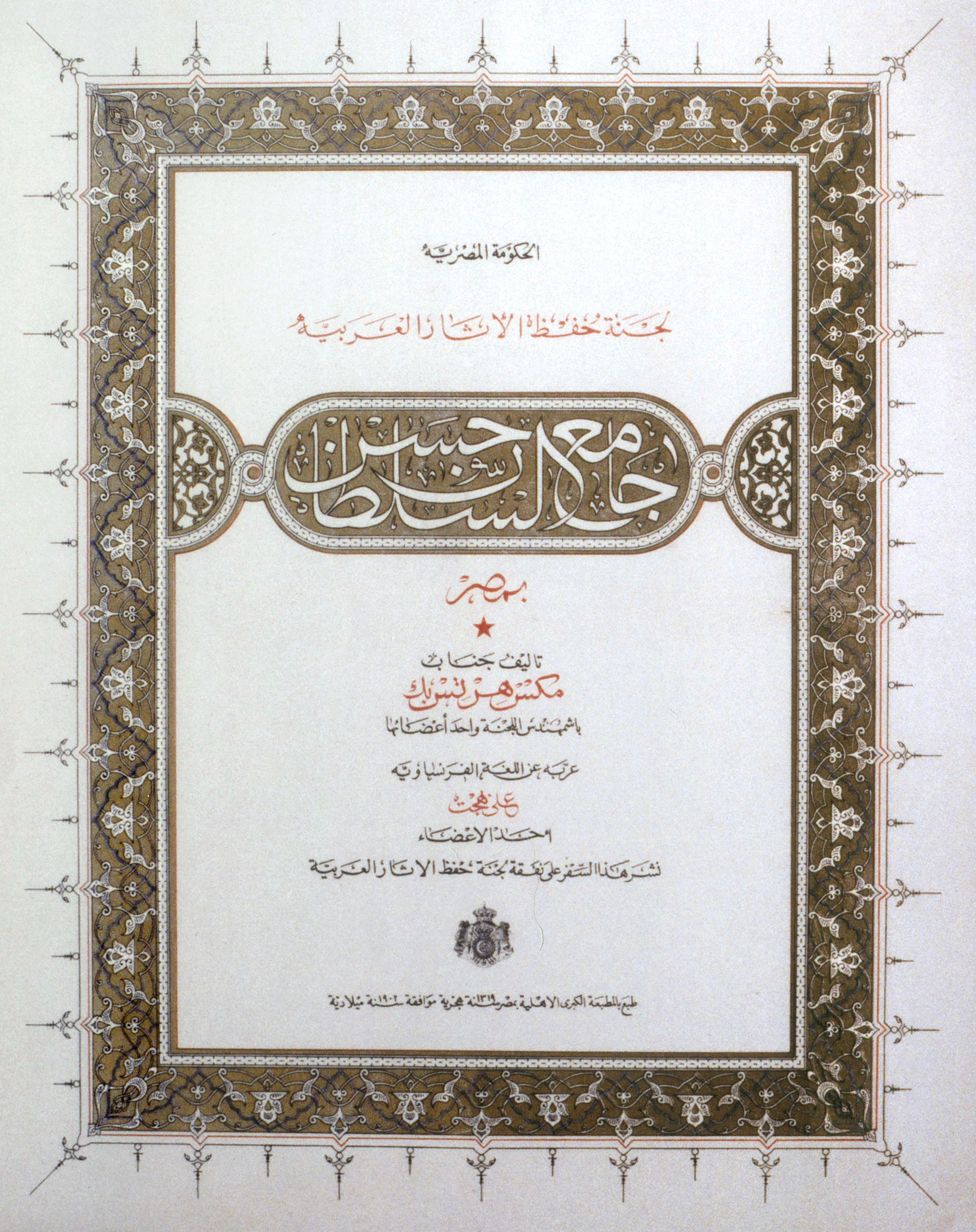 Title page of the Arabic edition of the monograph on Sultan Hasan’s mosque.